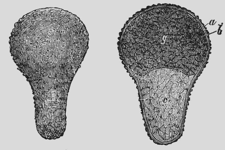 Illustration from Brockhaus and Efron Encyclopedic Dictionary (1890—1907)